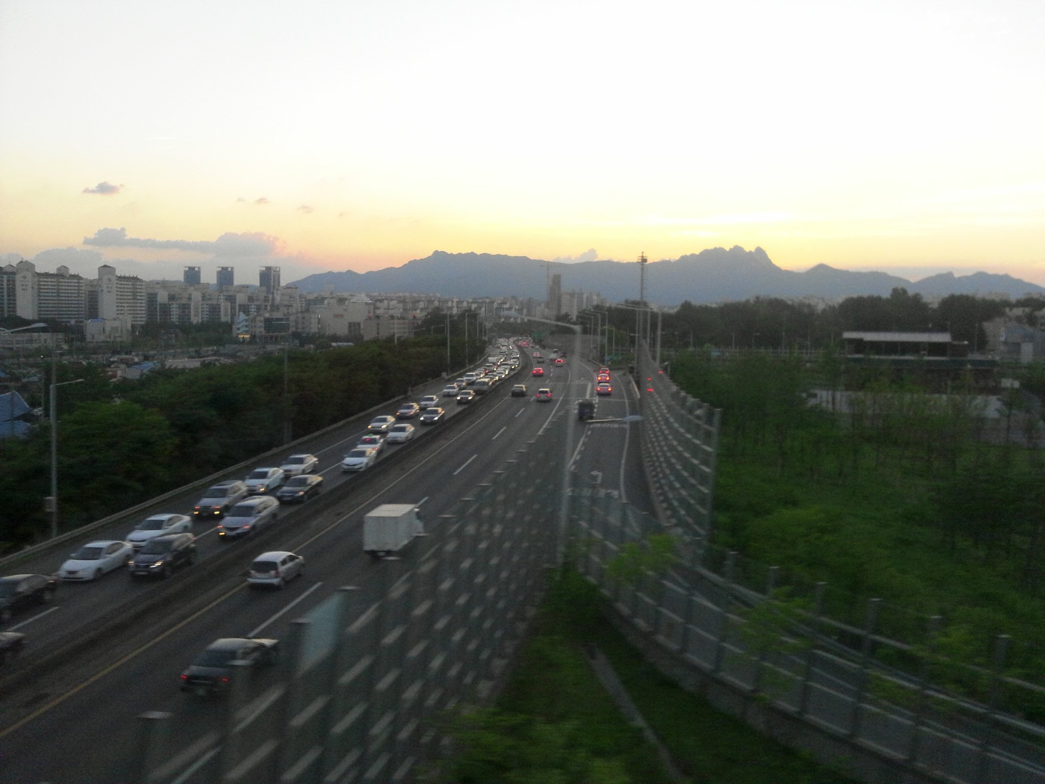 Korea Urbanexpressway - Seoul Bukbu Arterial Highway(Northern Arterial Highway) Sinnae IC(Evening)